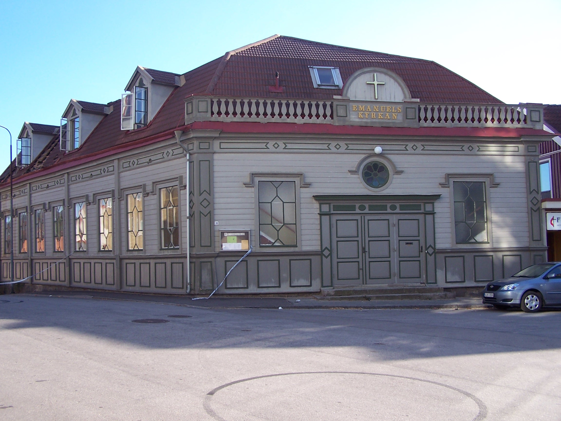 Emanuelskyrkan, the methodist church in Karlskrona.